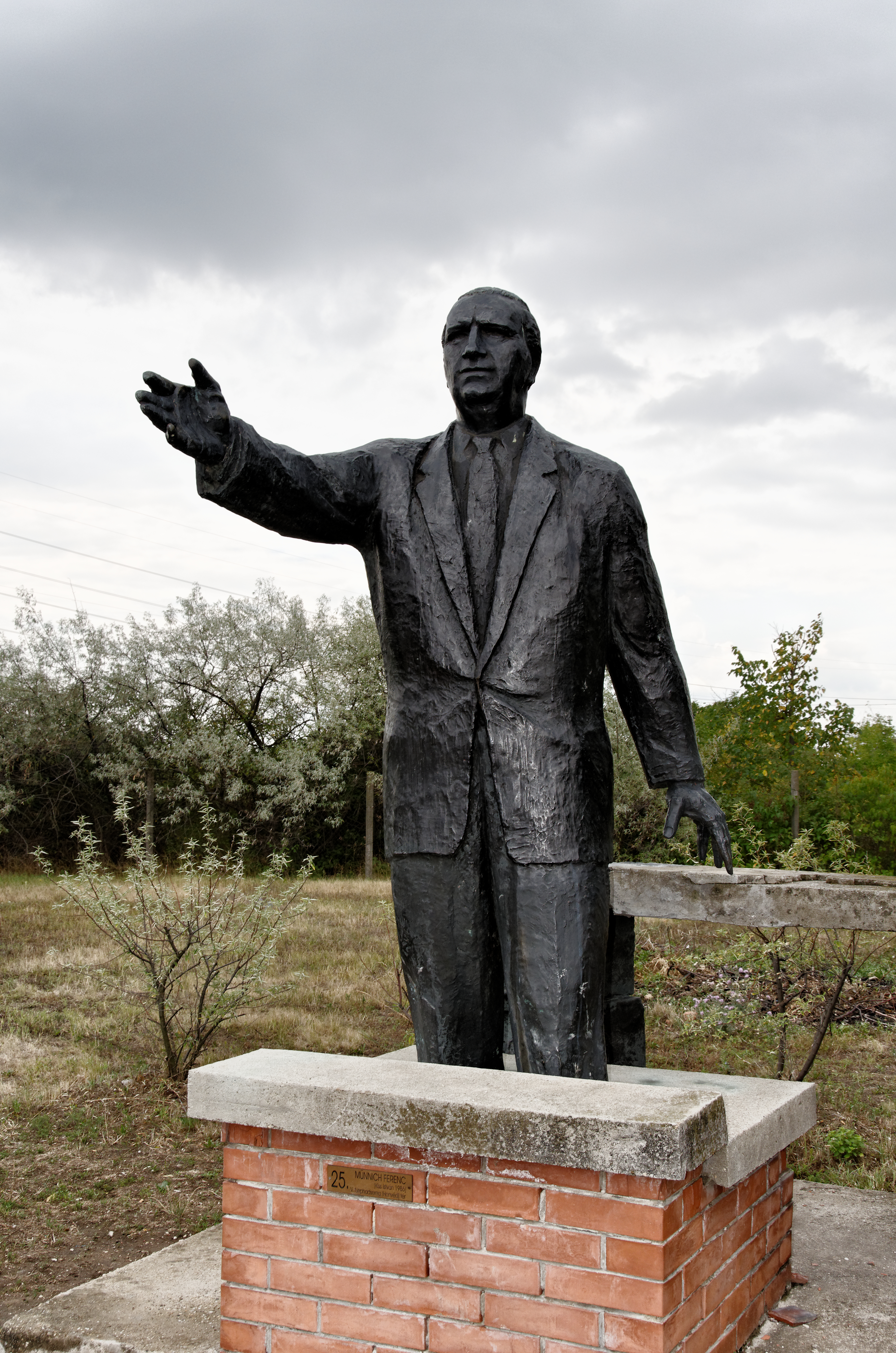 Ferenc Münnich in Memento Park (Budapest)